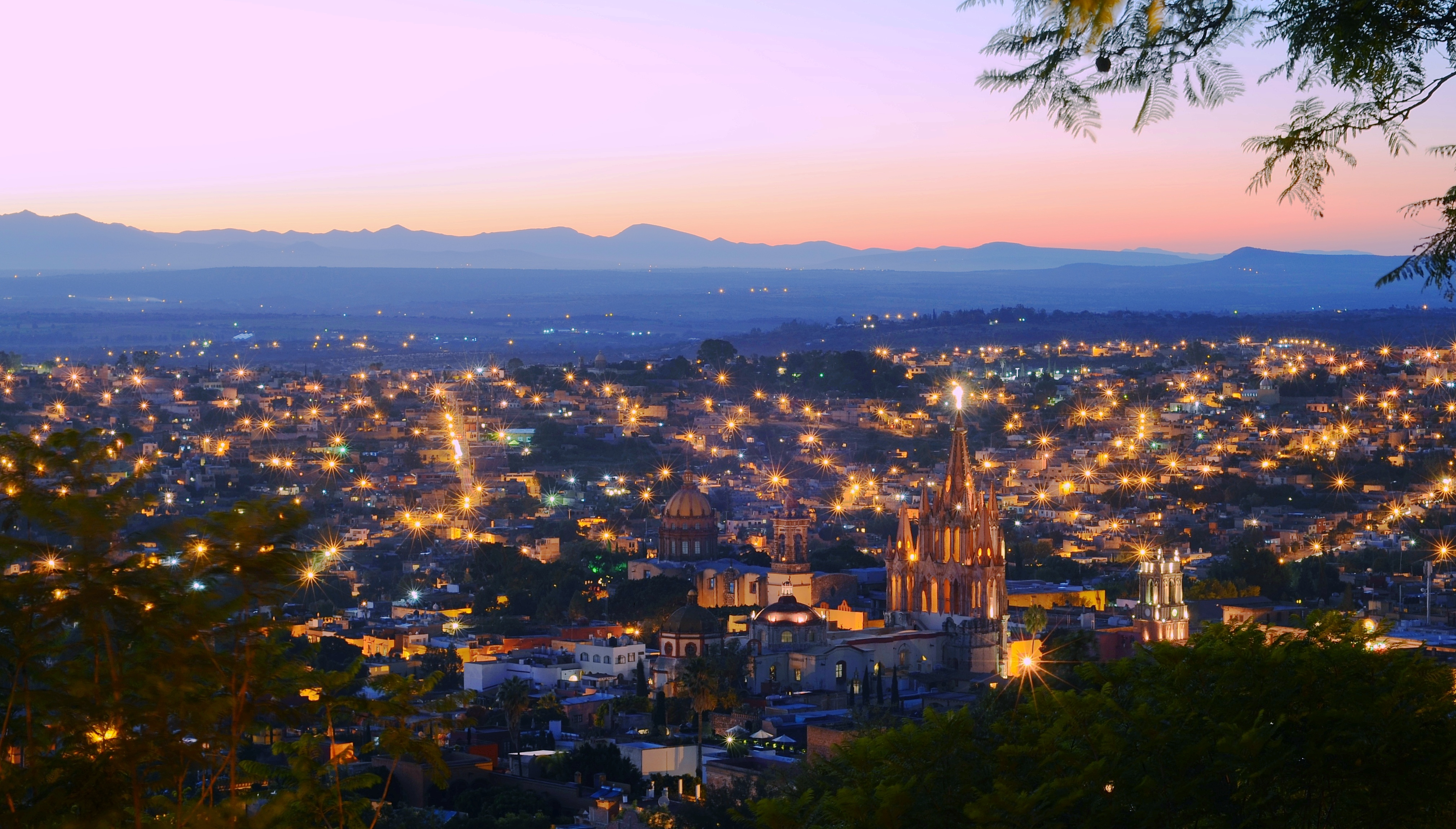 The Beautiful city of San Miguel de Allende at Dusk.